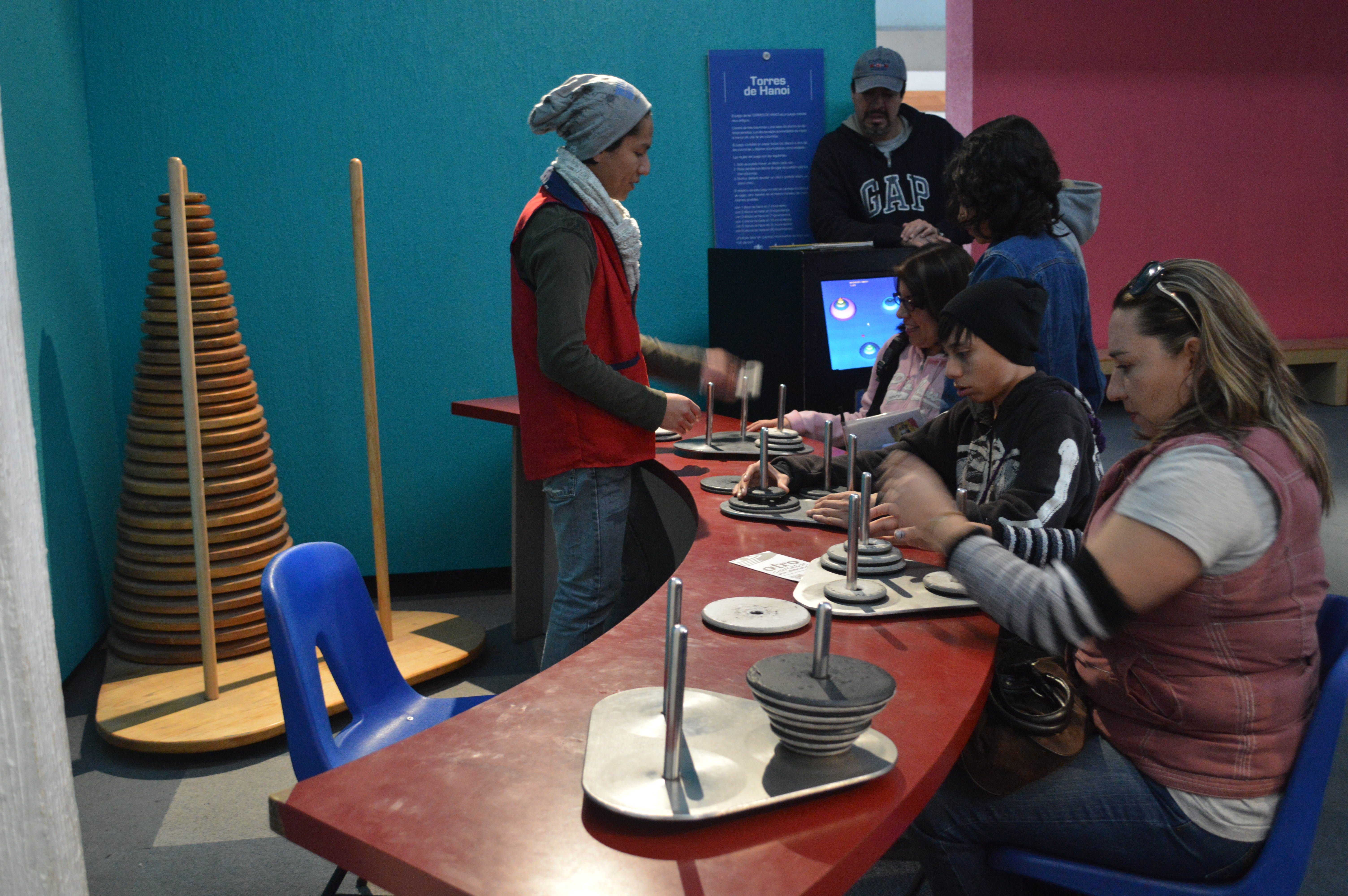 Visitors working Towers of Hanoi at Universum in Ciudad Universitaria in Mexico City